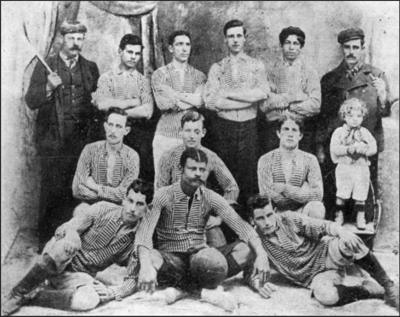 This is the first photo ever taken to Boca Juniors, in 1906, after the squad won the Copa Reformista. Boca wore a white jersey with vertical stripes (black or blue stripes is still discussed). The players are: from left to right: (up) Juan Brichetto -linesman and President of the club twice-, José Teodoro Farenga, Pedro Moltedo, Alberto Juan Penney, Marcelino Vergara y Santiago Basigaluppi. (middle) Germán Grande, Arturo Patricio Penney and Juan Prieno. (down) Juan Antonio Farenga, Juan De Los Santos and Luis Cerezo. Guillermo Ryan did not appeared.